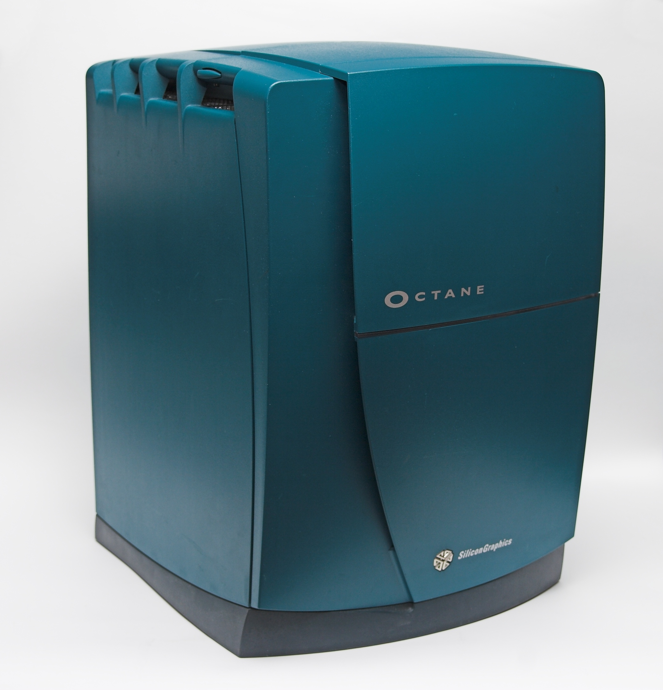 SGI (Silicon Graphics) Octane workstation